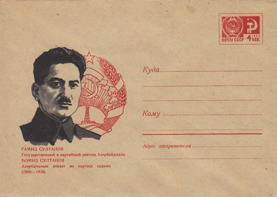 Famous People Azerbaijan Polician G.Sultanov State Emblem on Russia USSR 1969 Mint Stationery Cover #15650